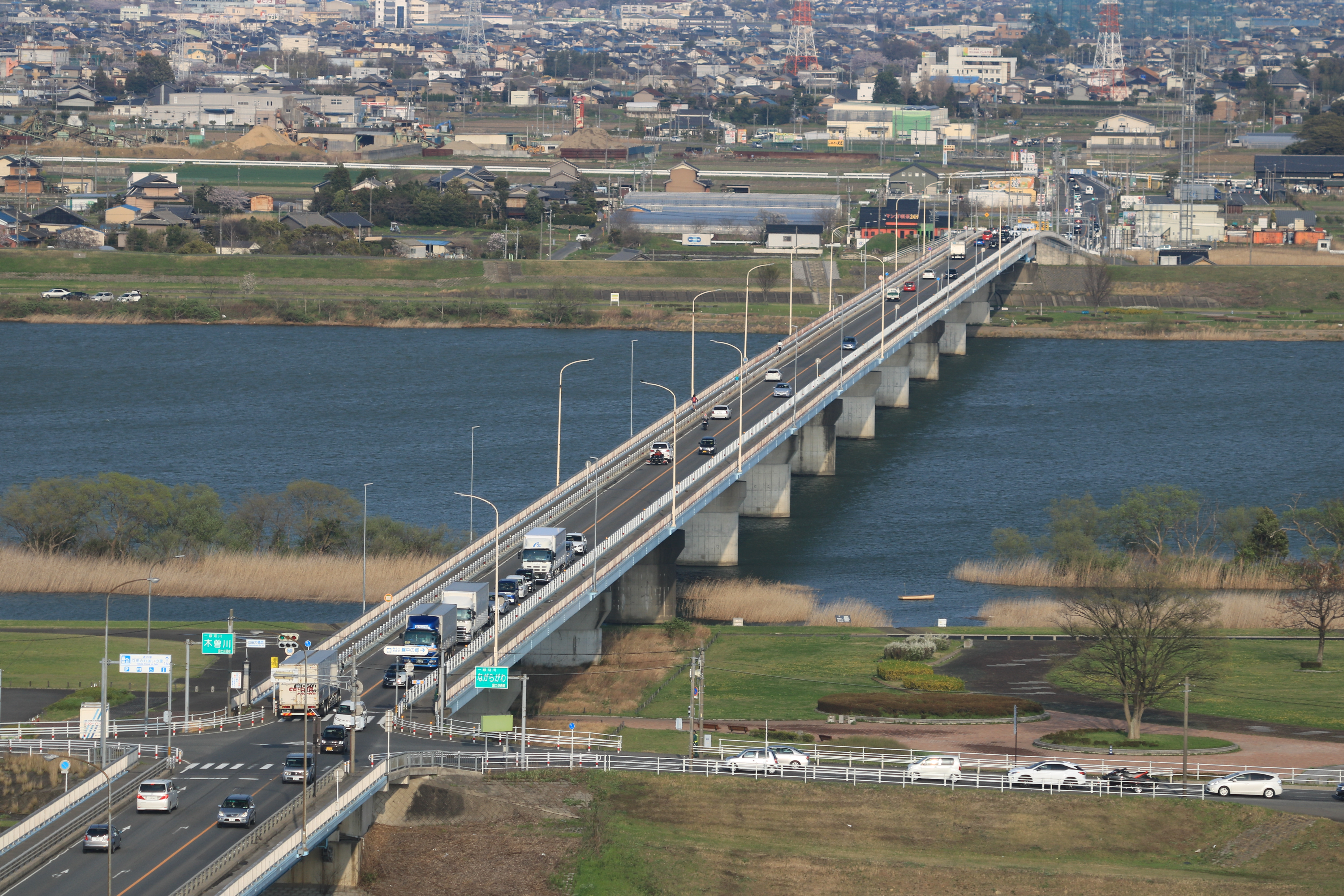 Tatsuta Bridge over Kiso River seen from Observation tower of Kiso Sansen Park Center in Aisai, Aichi prefecture, Japan.